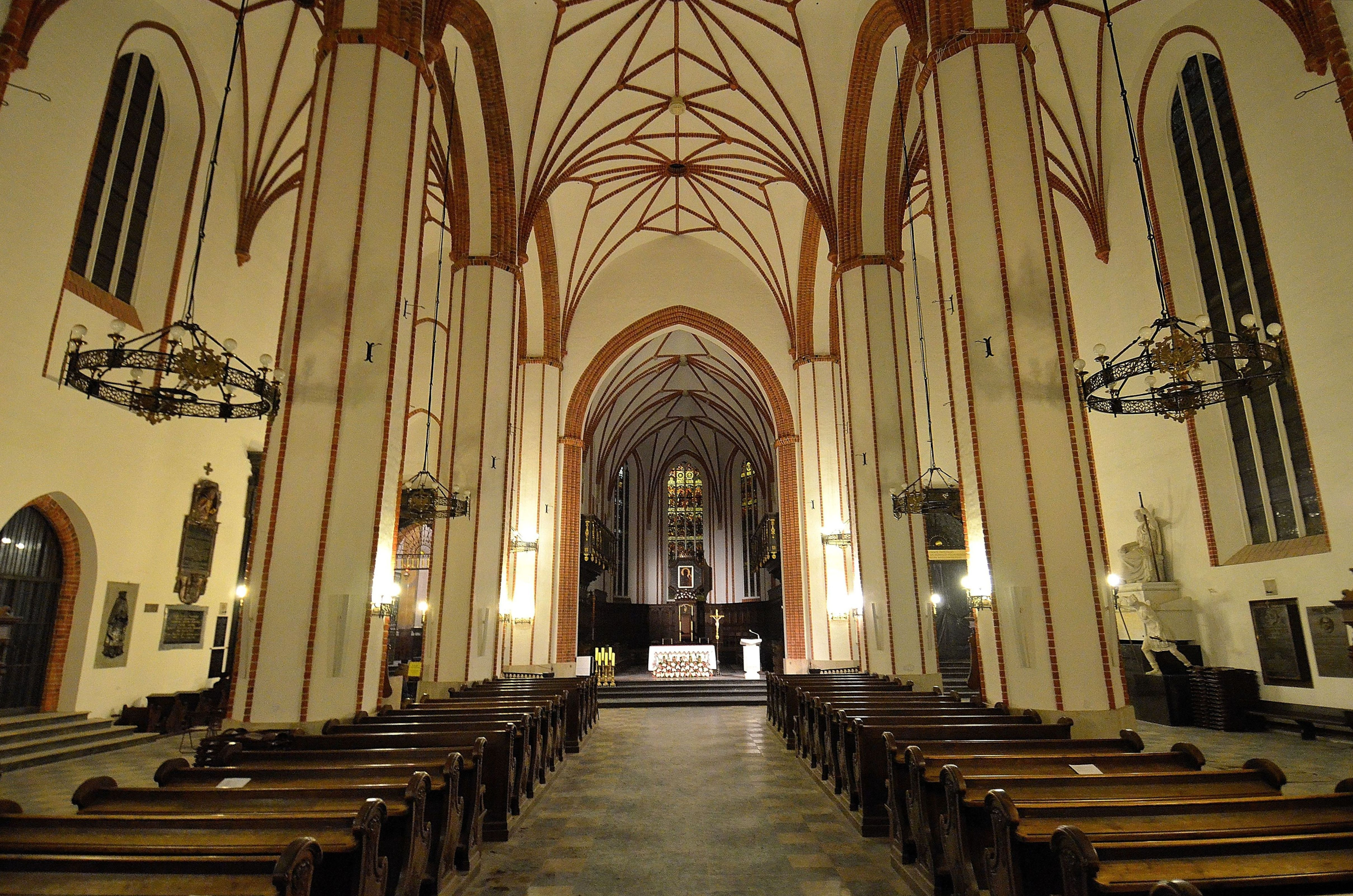 Interior of St. John's Cathedral in Warsaw